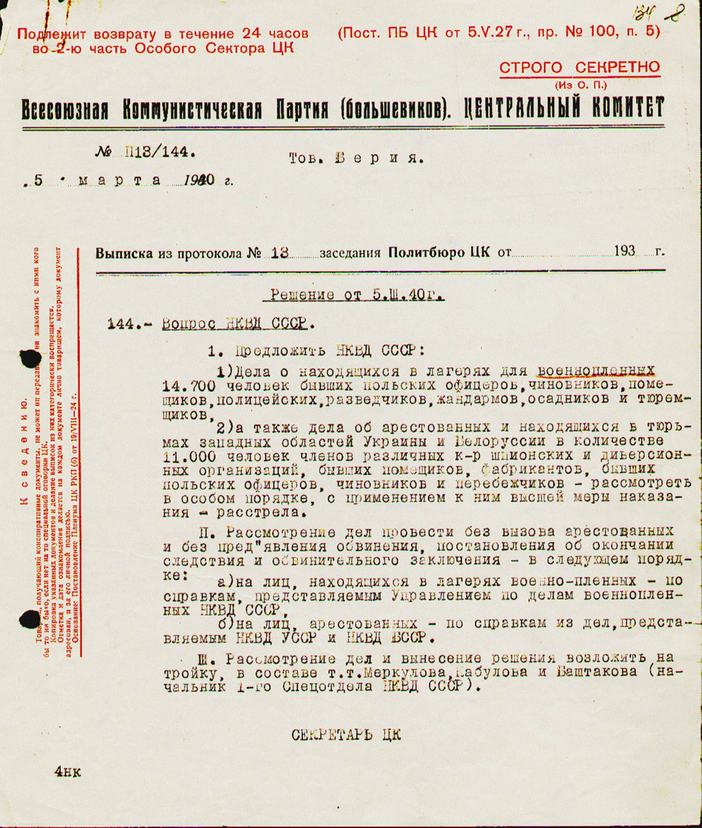 Excerpt from protocol № 13 of the Politburo session "A question to NKVD USSR" (item 144). 5 March 1940. Original.